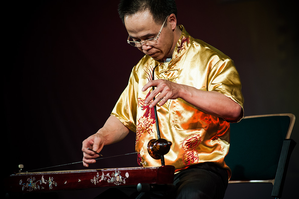 Man playing Đàn bầu, Vietnamese musical instrument